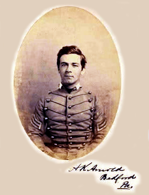 A photo of United States Military Academy cadet Abraham Arnold, class of 1859; later, U.S. cavalry officer during the American Civil War, and brigadier general of volunteers during the Spanish–American War.